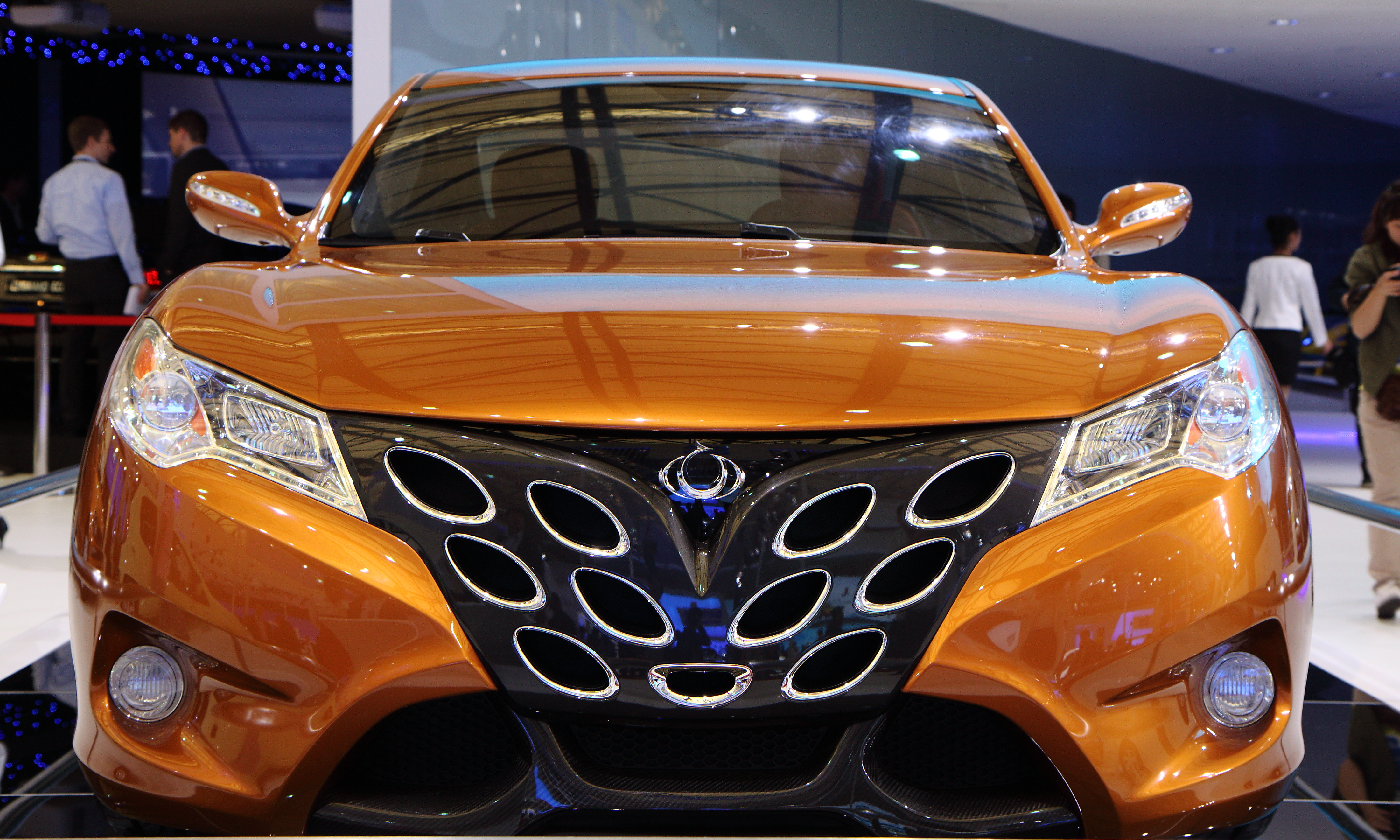 Geely Gleagle GS (coupe version) concept car, in Auto Shanghai 2011.